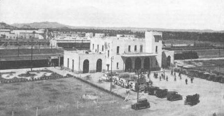 Kenitra Railway Station during the 20s